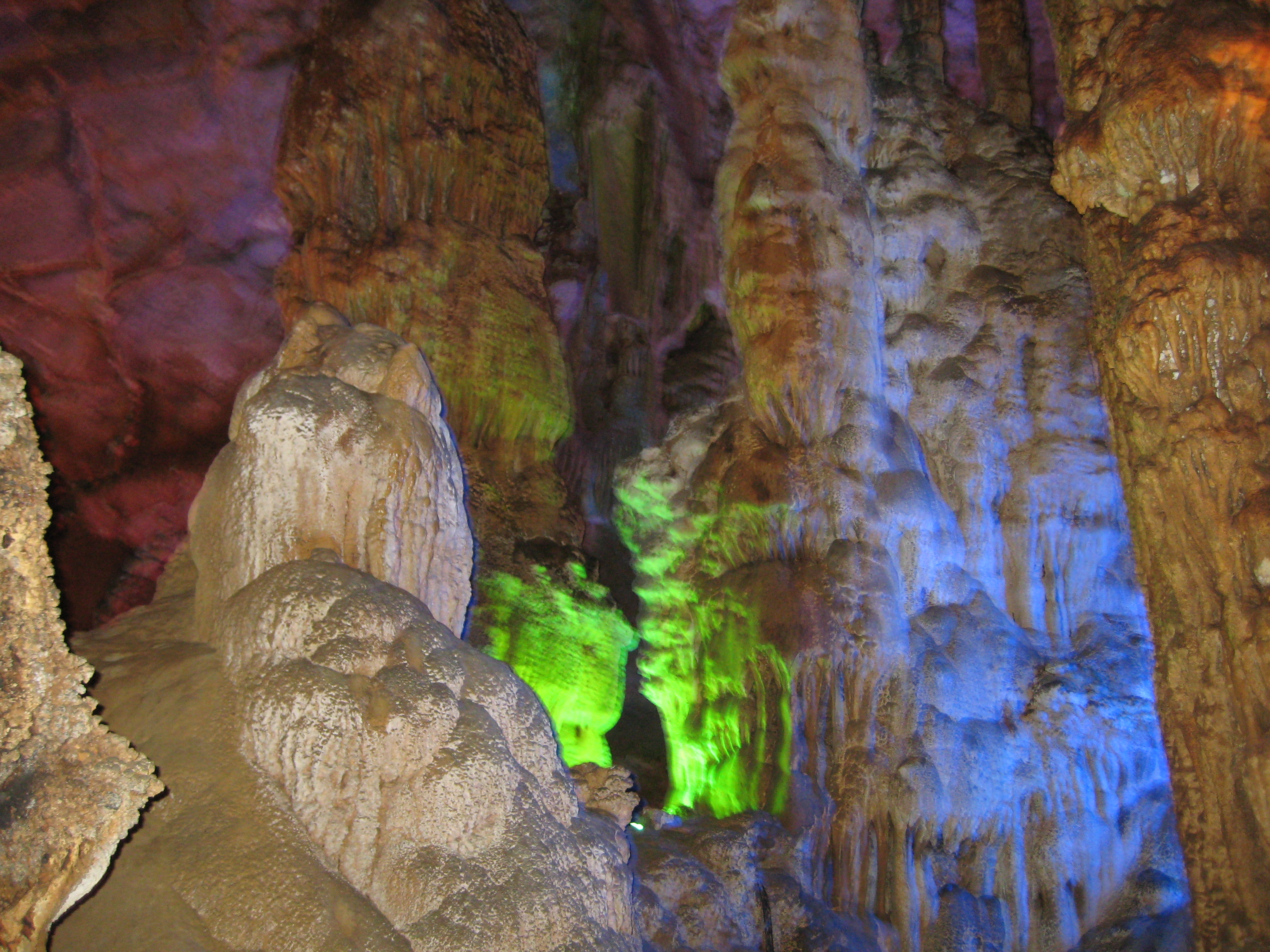 Inside the Dry Cave, Phong Nha-Ke Bang National Park, Vietnam